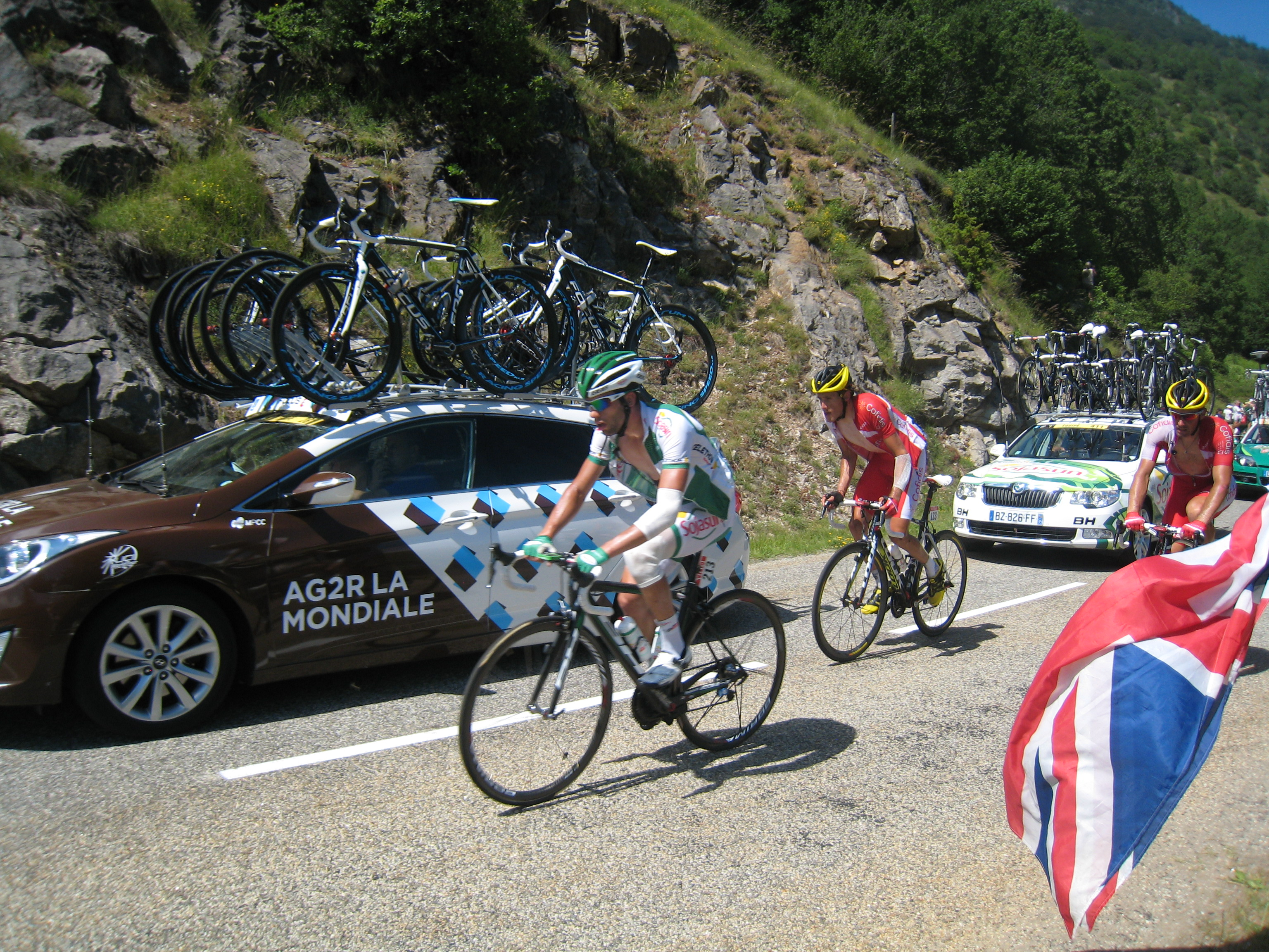 Julien El Fares on the Port de Pailhères in the 2013 Tour de France